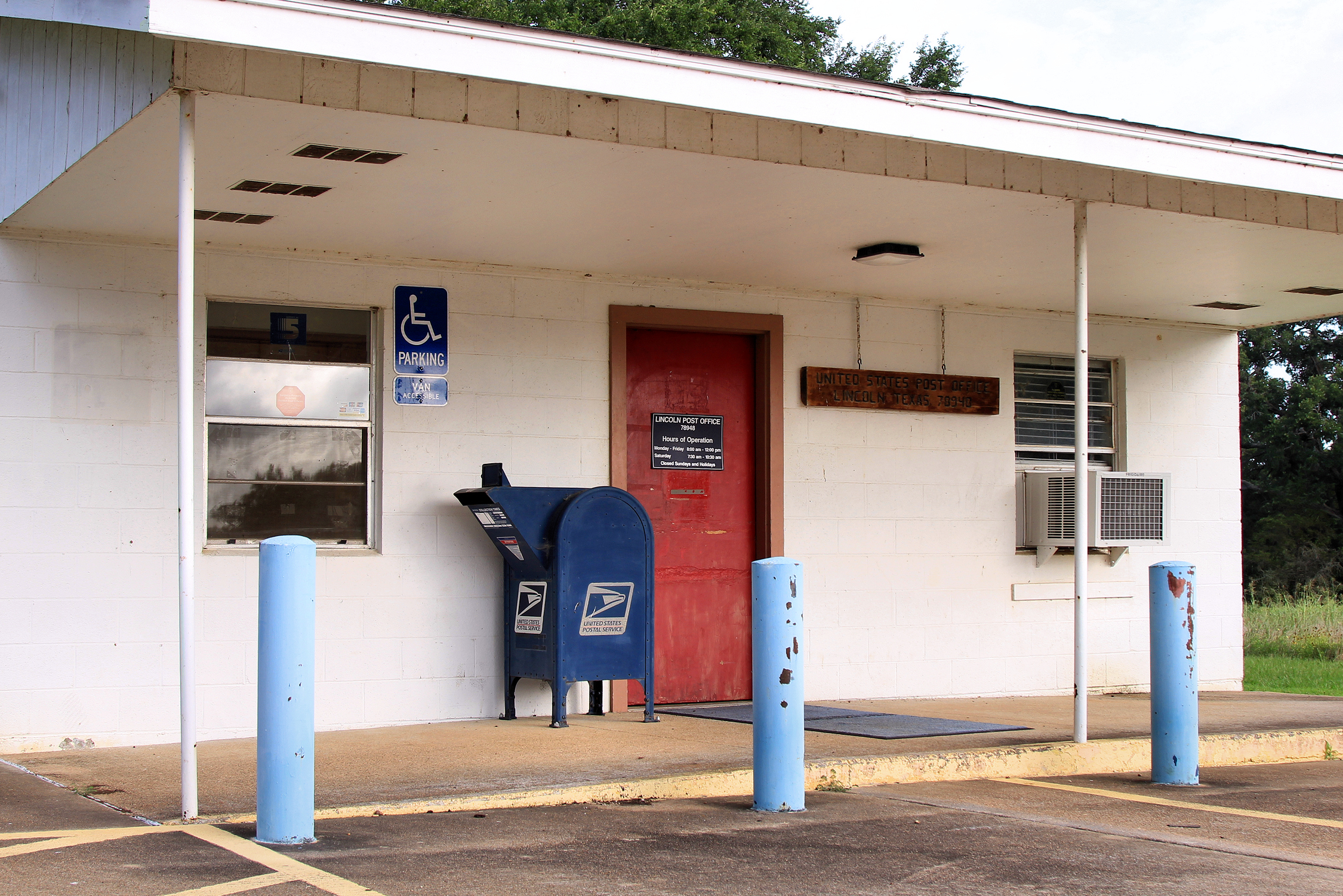 The post office building in Lincoln, Texas, United States.